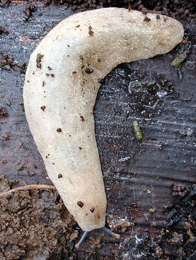 Photo of Veronicella sloanei